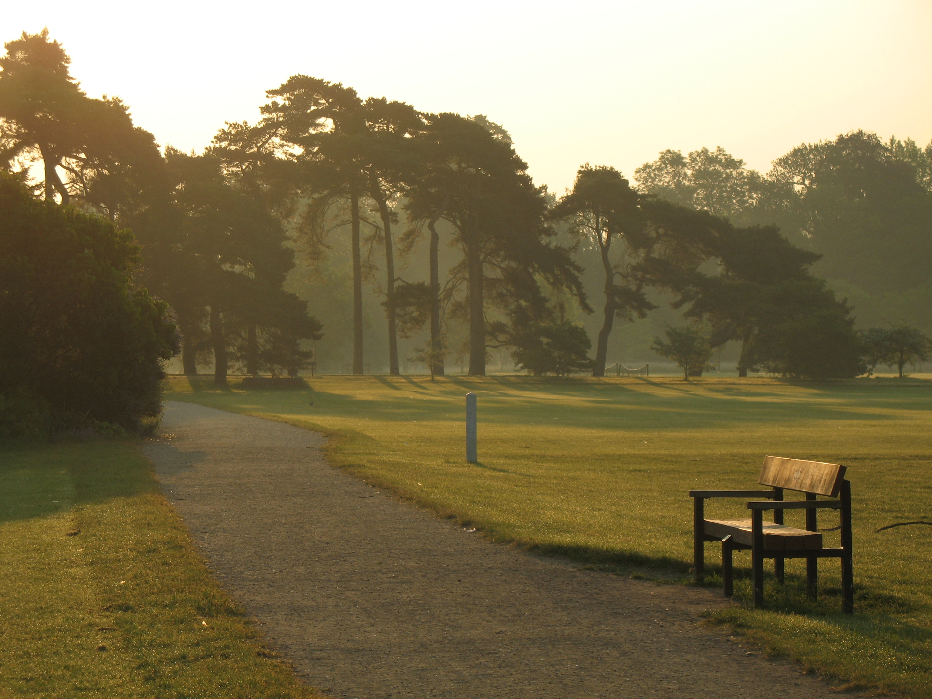 Early morning in June in University Parks, Oxford